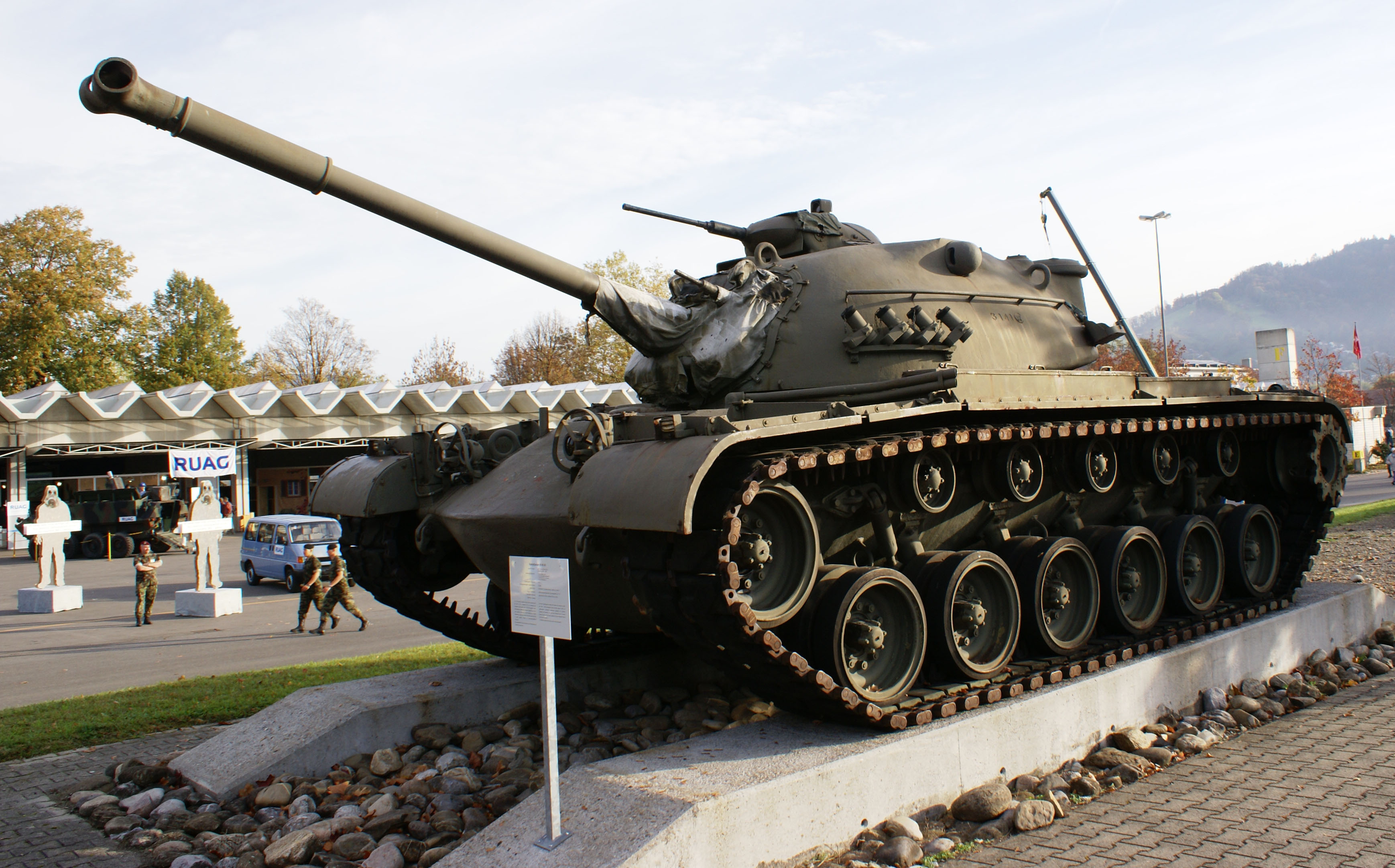 Tank M48 "Patton", US Army. Tank Museum Thun